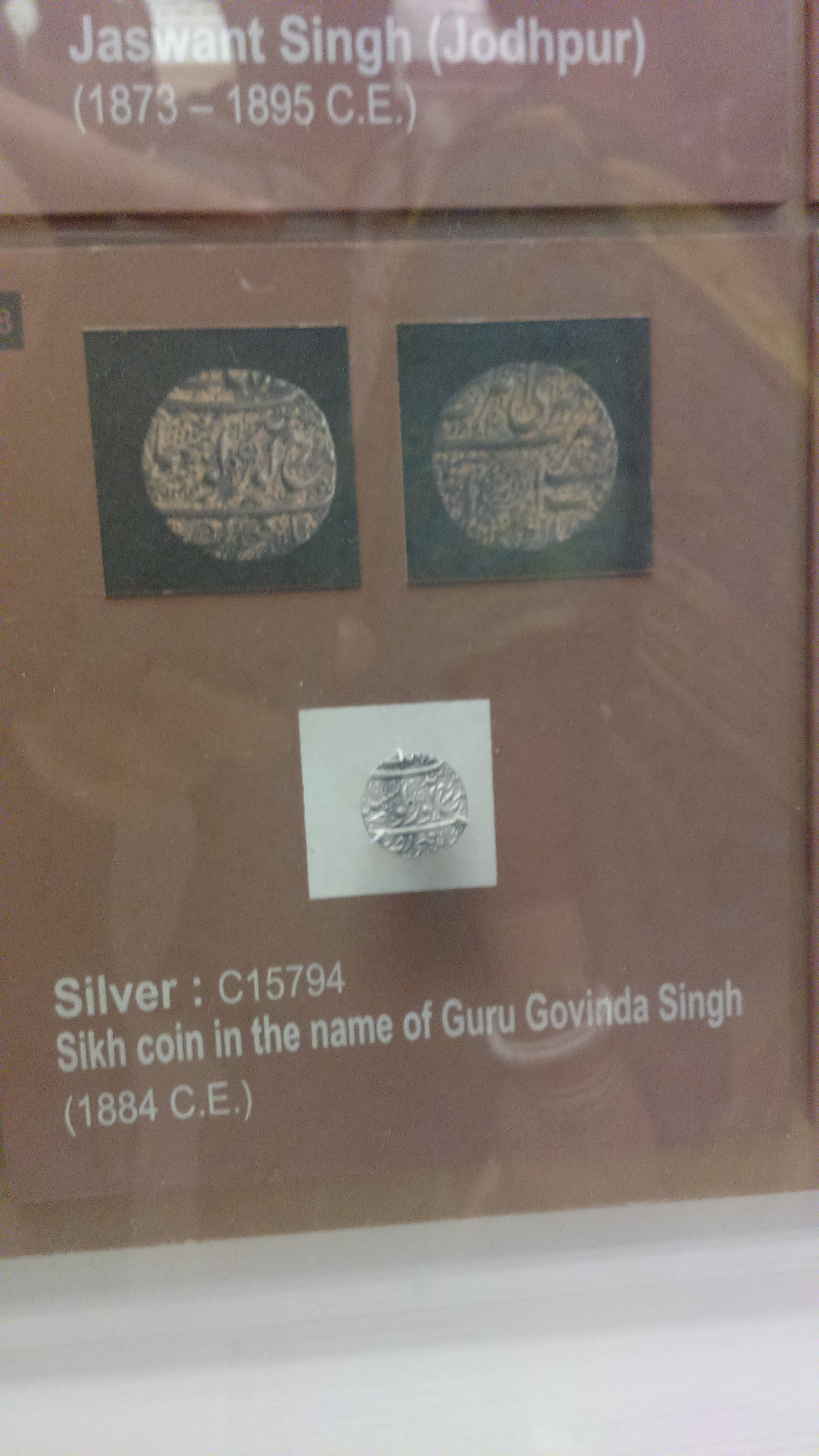 Silver coin issued by Guru Gobind Singh, Indian Museum